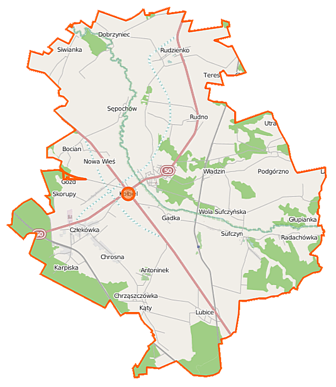 Map of Gmina Kołbiel, Poland This map of Kołbiel (gmina) was created from OpenStreetMap project data, collected by the community. This map may be incomplete, and may contain errors. Don't rely solely on it for navigation. Border coordinates52.126121.3959←↕→21.585451.9919